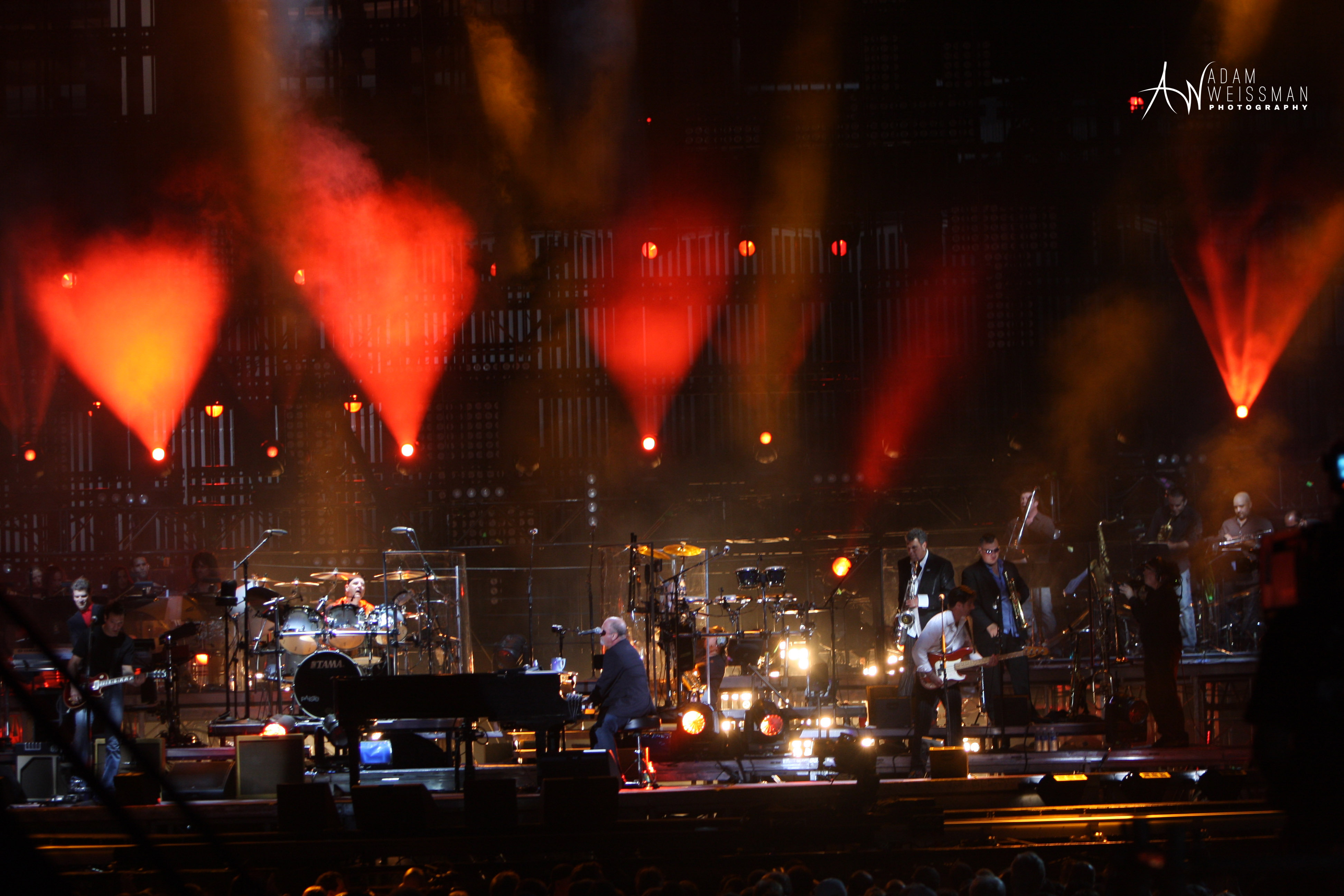 Billy Joel Plays the Piano at Shea Stadium during his "Last Play At Shea" Concert in 2008. This was the last concert held at Shea Stadium before being replaced by Citi Field.